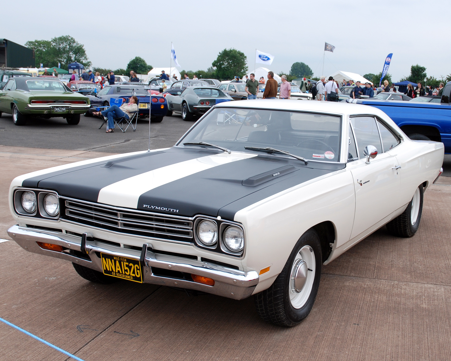 at RIAT Fairford Jul 2007